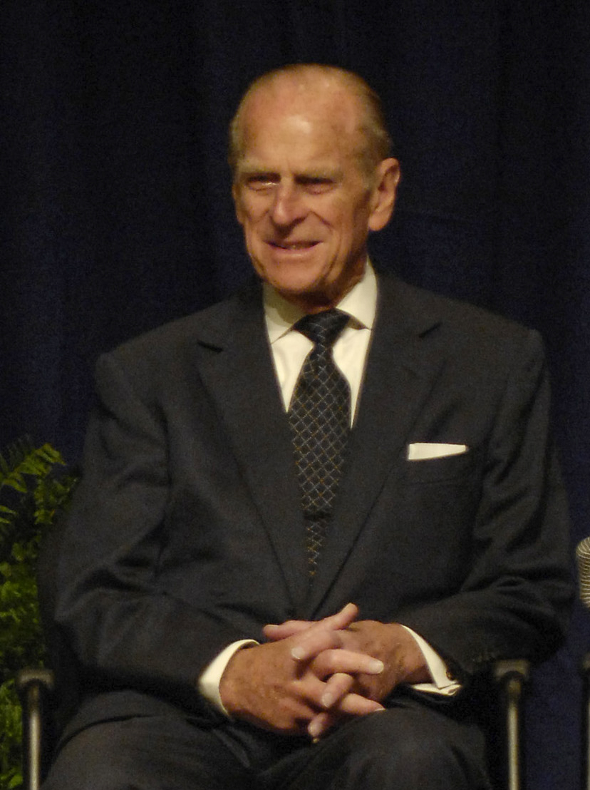 Prince Philip, Duke of Edinburgh, during a visit to the NASA Goddard Space Flight Center in Greenbelt, Maryland.